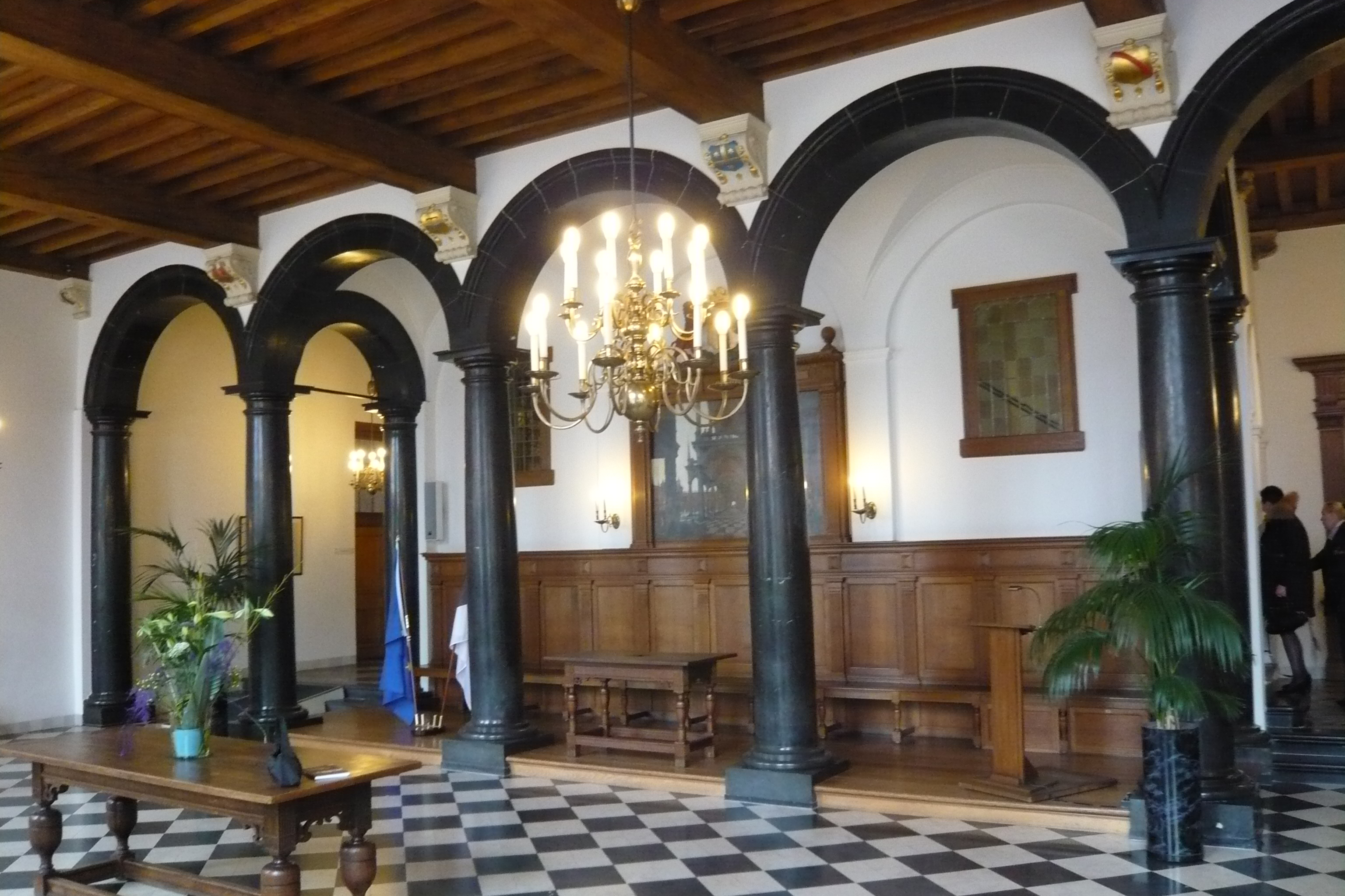 City Hall, Grote markt, Delft Vierschaar